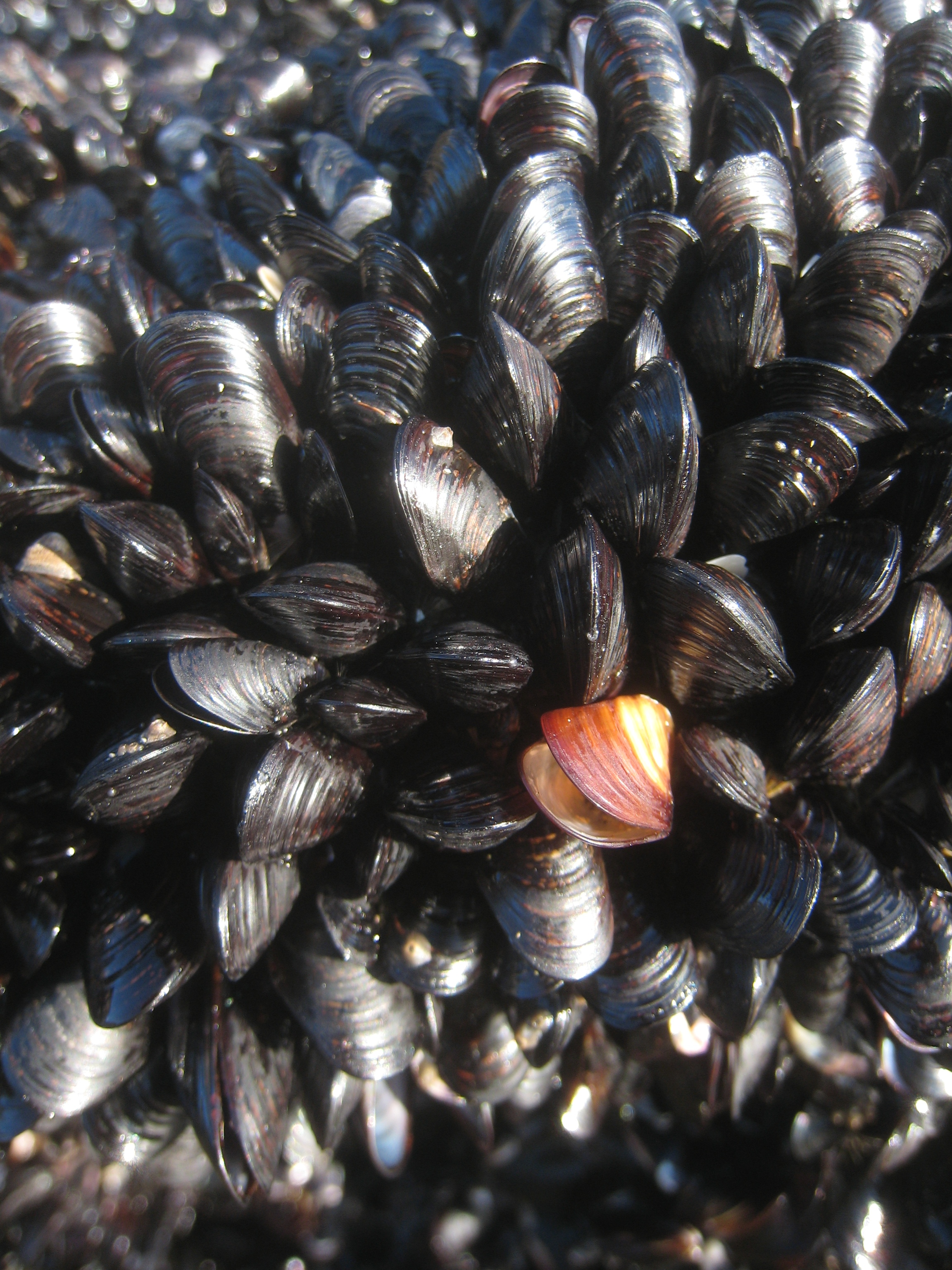 Xenostrobus pulex (little black mussel, aka flea mussel or little black horse mussel) on rocks a little above mid tide level at south end of Muriwai Beach, west of Auckland, New Zealand. The shell of one dead mussel is bleached. The largest mussels seen here are about 5 mm wide, and perhaps twice that in length.